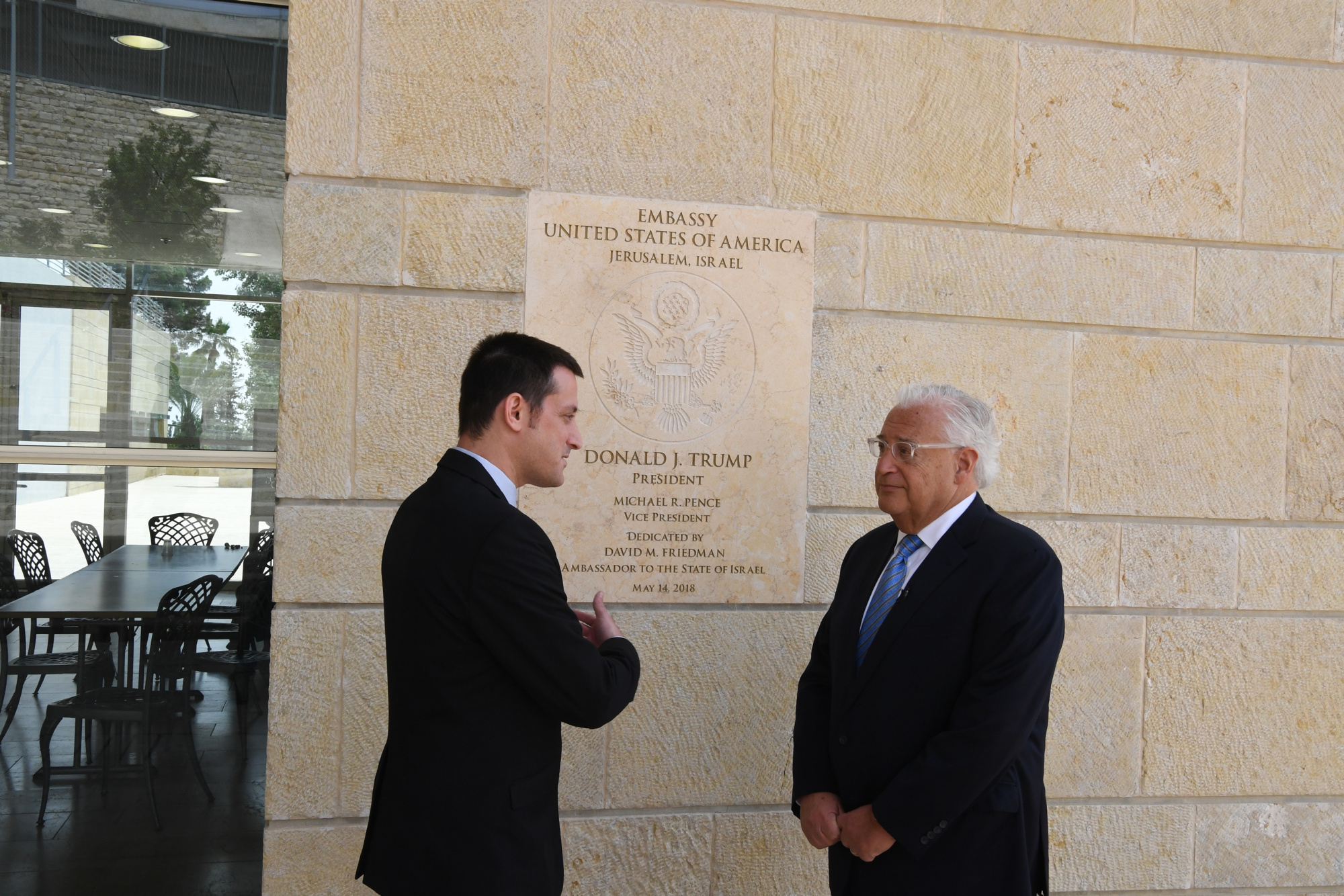 Ambassador Friedman interviews to Ch10 and Ch 2 in Arnona, Jerusalem